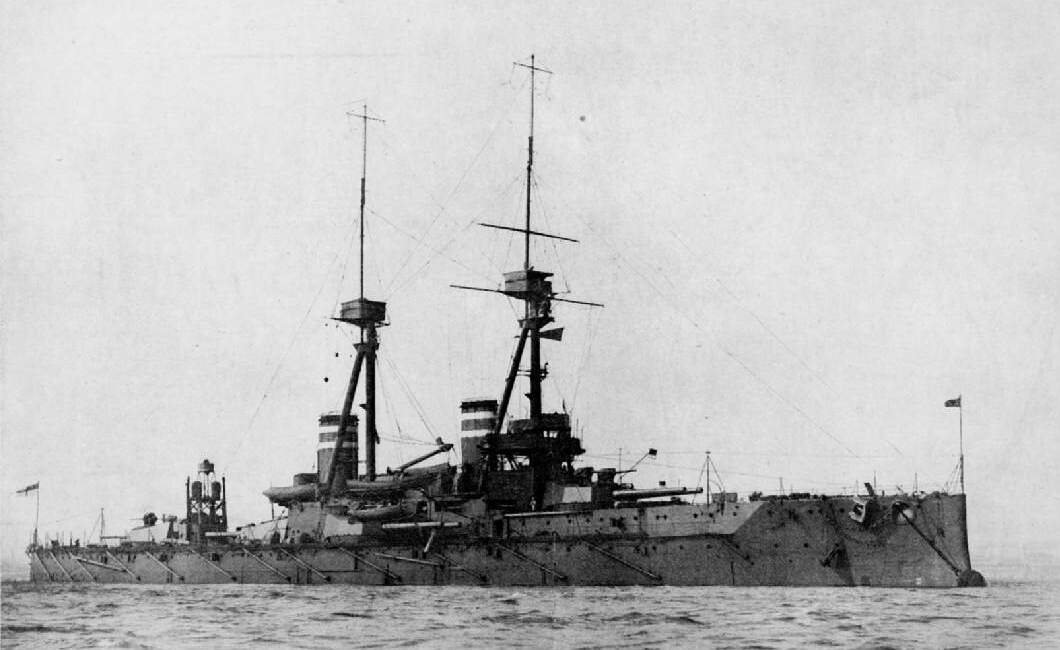 British battleship HMS Temeraire (1907)